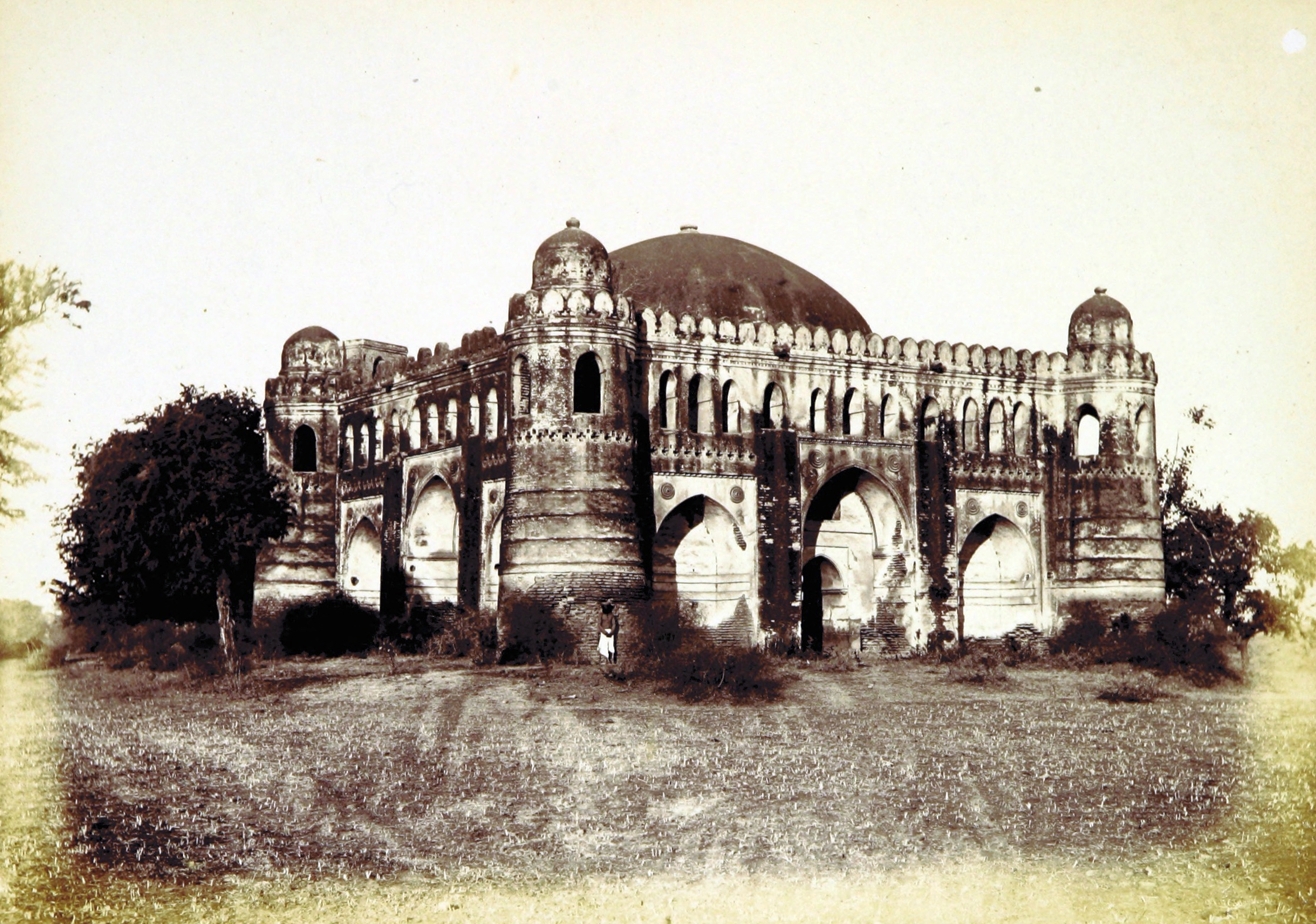 Image taken from: Title: "Architecture at Ahmedabad, the Capital of Goozerat, photographed by Colonel Biggs, ... With an historical and descriptive sketch, by T. C. H., ... and architectural notes by J. Fergusson, etc" Author: HOPE, Theodore Cracraft - Sir, K.C.S.I Contributor: BIGGS, Thomas. Contributor: FERGUSSON, James - Architect Shelfmark: "British Library HMNTS 10057.f.17.", "British Library OC V 6665" Page: 243 Place of Publishing: London Date of Publishing: 1866 Issuance: monographic Identifier: 001730119 Note: The colours, contrast and appearance of these illustrations are unlikely to be true to life. They are derived from scanned images that have been enhanced for machine interpretation and have been altered from their originals. If you wish to purchase a high quality copy of the page that this image is drawn from, please order it here. Please note that you will need to enter details from the above list - such as the shelfmark, the page, the book's volume and so on - when filling out your order. Following this or the link above will take you to the British Library's integrated catalogue. You will be able to download a PDF of the book this image is taken from, as well as view the pages up close with the 'itemViewer'. Click on the 'related items' to search for the electronic version of this work. Click here to see all the illustrations in this book and click here to browse other illustrations published in books in the same year. Please click on the tags shown on the right-hand side for other ways to browse the illustrations.